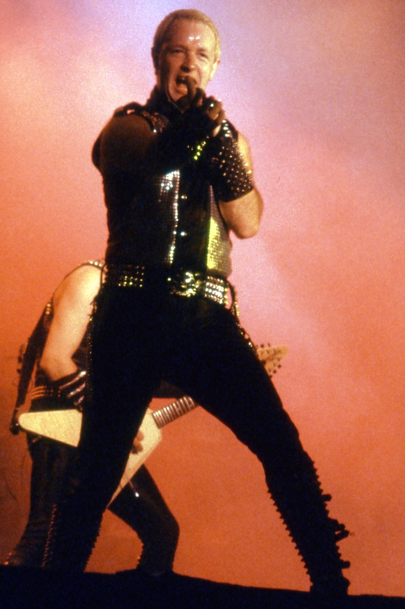 Rob Halford from Judas Priest in 1984